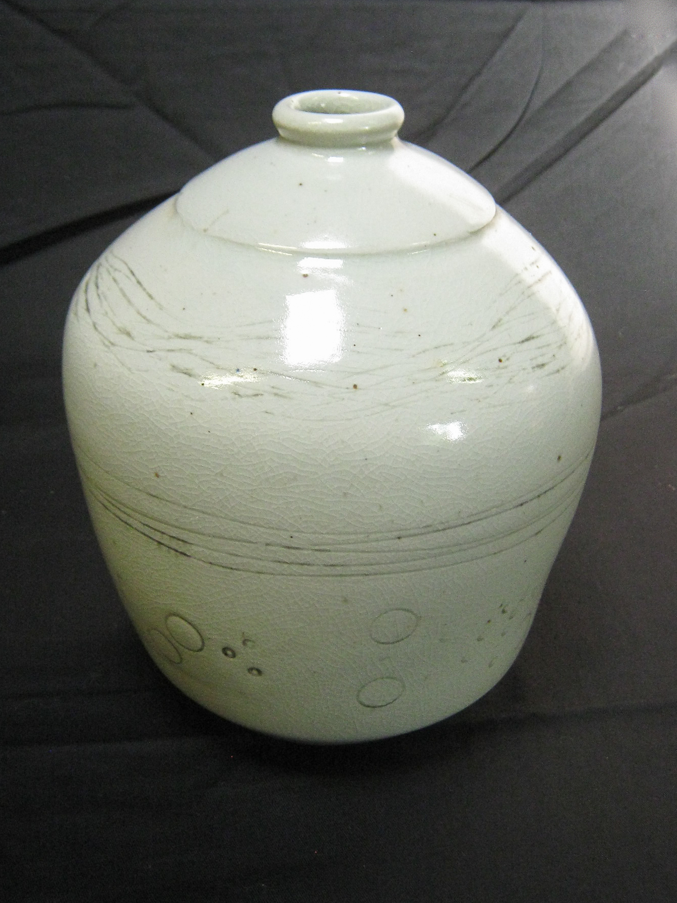 White pottery jar with circles by Ian Sprague; photographed in a private collection at Enfield Victoria